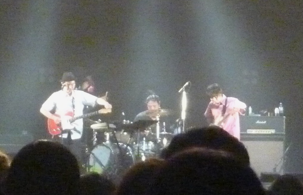 Zazen Boys performing live at Countdown Japan festival